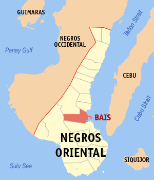 Map of Negros Oriental showing the location of Bais